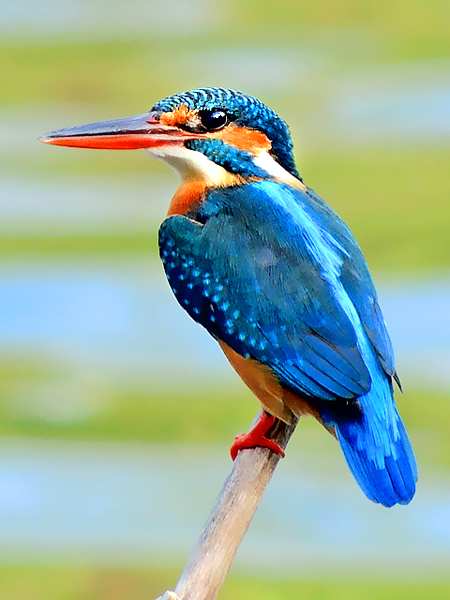 Common Kingfisher (Alcedo atthis) from Mangaon, Raigad, Maharashtra, India. Photograph by Shantanu Kuveskar.